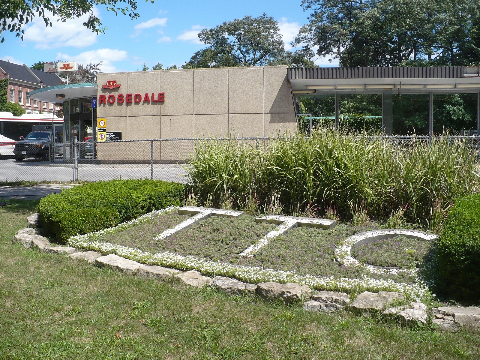 Rosedale subway station in Toronto